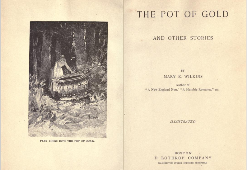 The cover page for the first edition of Mary E. Wilkins's book of short stories "The Pot of Gold and Other Stories"